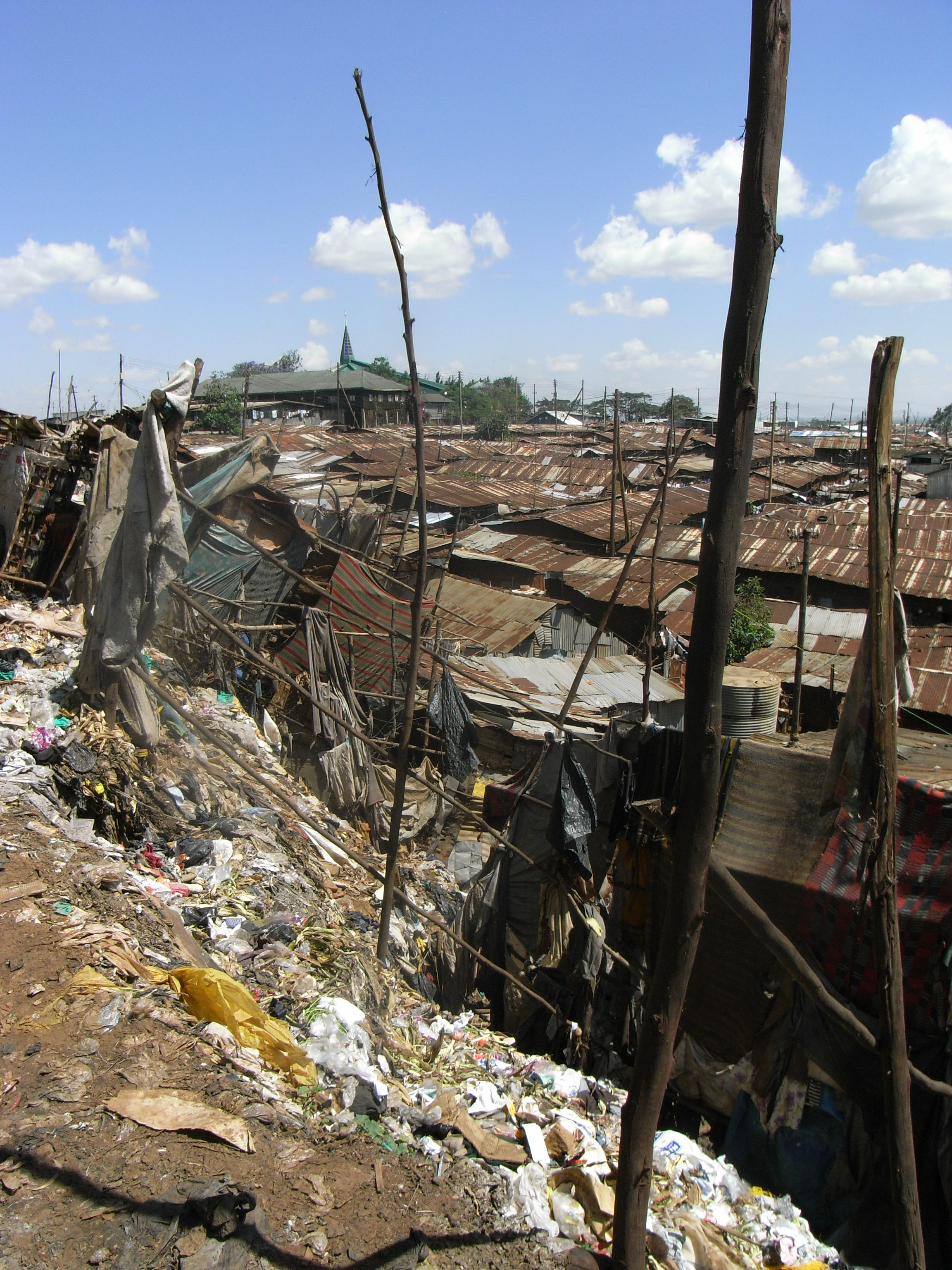 Slum Kibera in Nairobi/Kenya